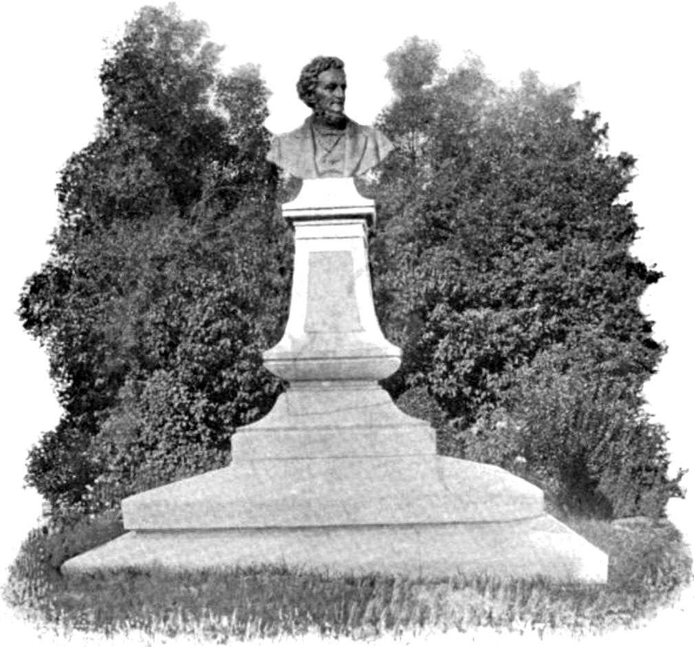 Monument to Léon de La Sicotière (1812 – 1895) erected in his native town of Alençon.